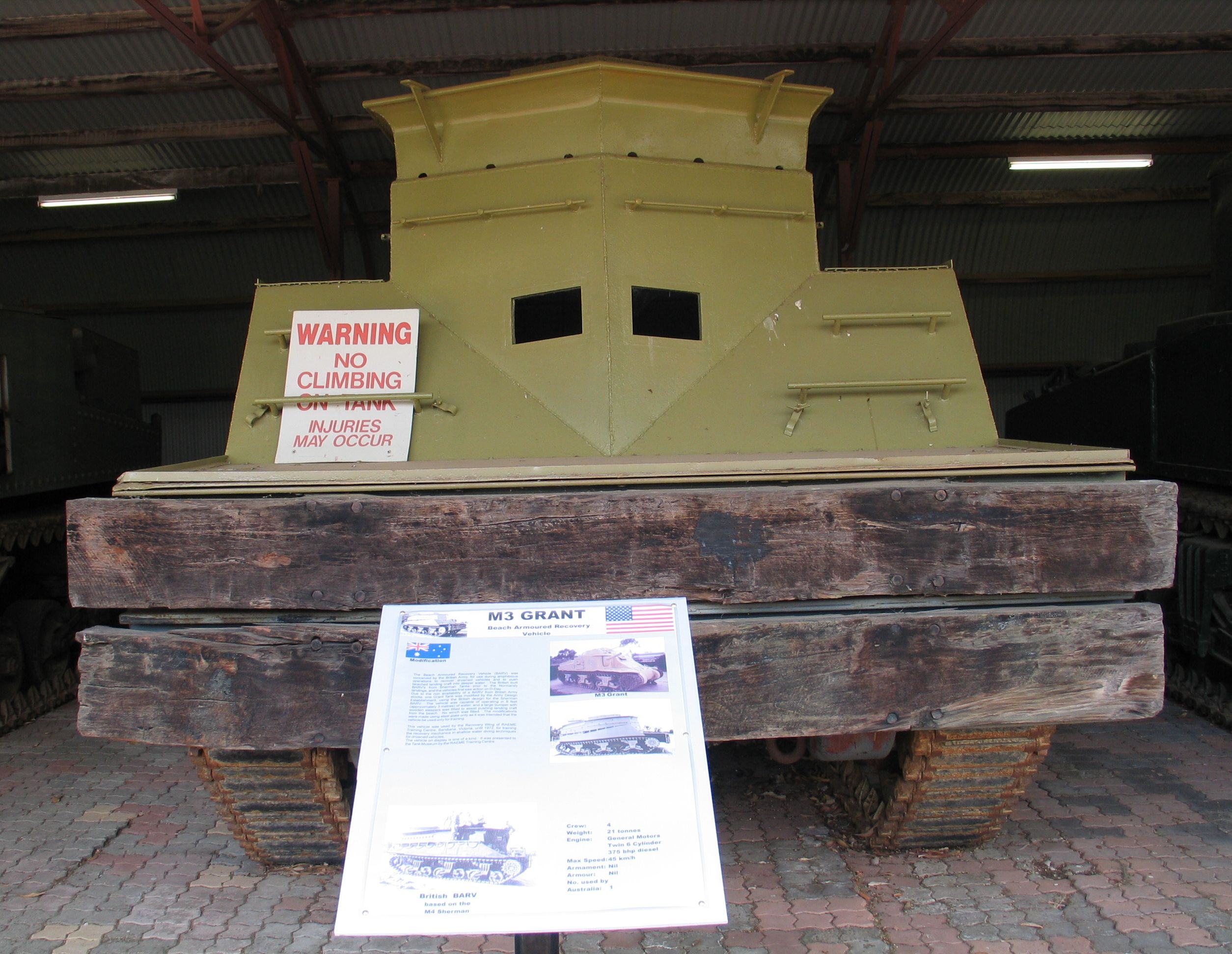 M3 BARV in Royal Australian Armoured Corps Tank Museum, Puckapunyal, Victoria, Australia. Only one vehicle was built.